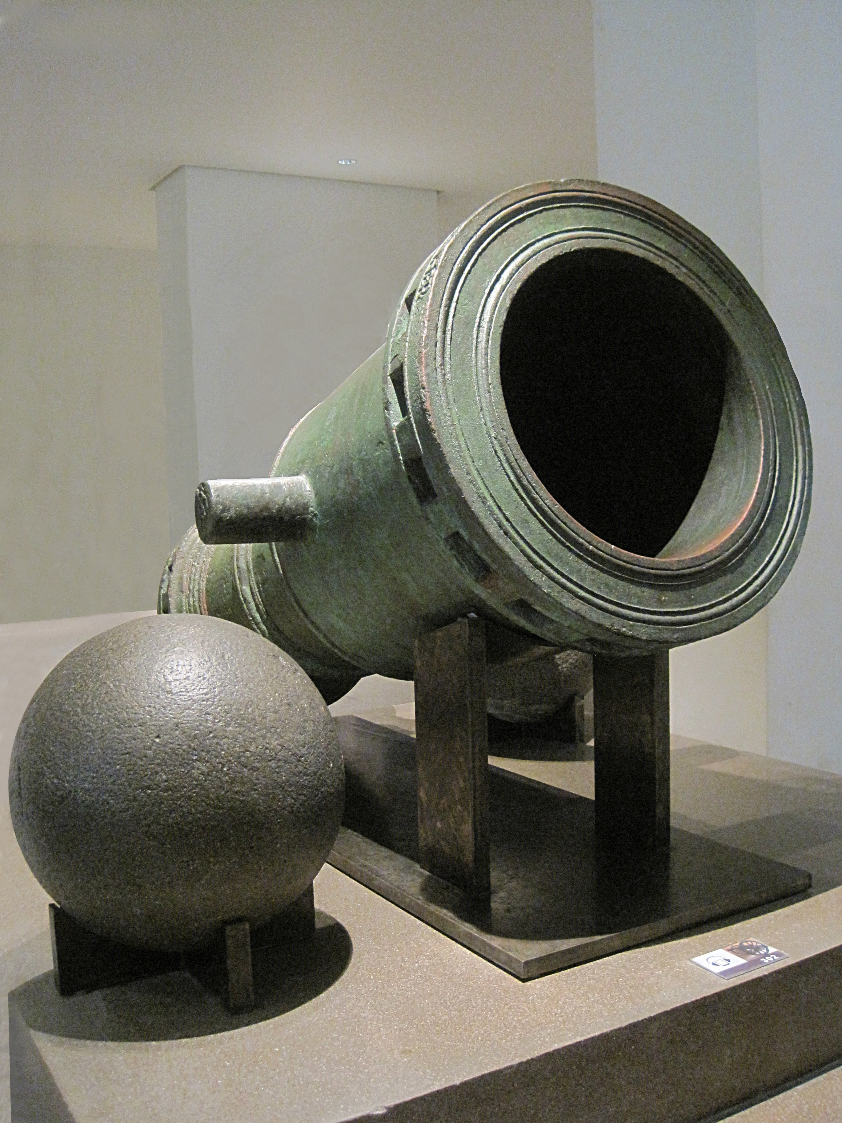 The so-called Aubusson mortar bombards, the largest known in the world both by its dimensions and its mass, (caliber: 580 mm, length: 1.95 m / mass: 3.325 t), made for the defense of Rhodes at the request of Pierre d'Aubusson, grand master of the Order of Hospitallers of Saint-Jean-de-Jerusalem during the first half of the 15th century, kept at the Musée de l'Armée (Hotel des Invalides) in Paris.